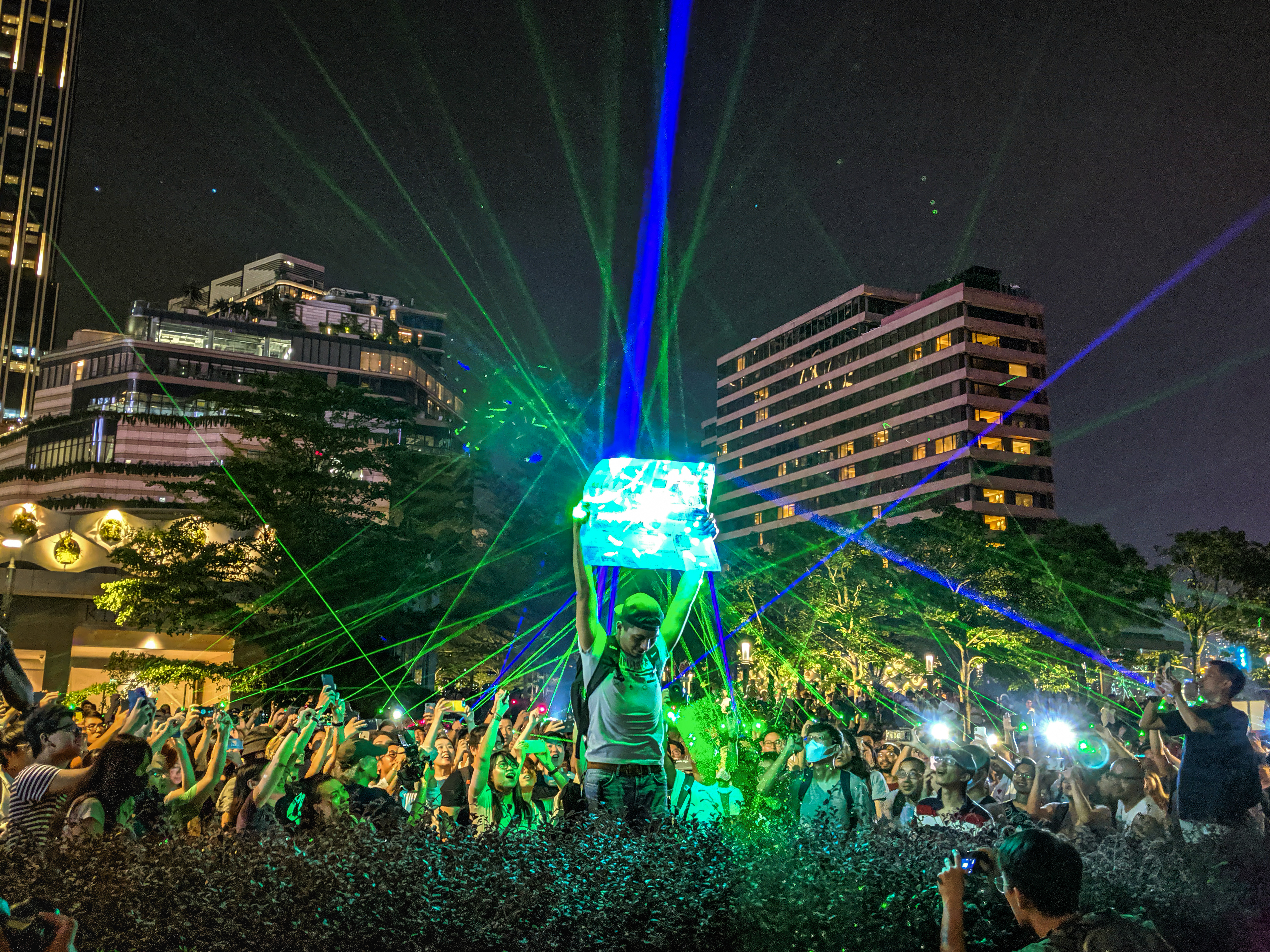 In a police press conference in the afternoon, police representatives stated that the laser pointers he purchased were in fact "laser guns." They attempted to demonstrate that the "laser gun" HKBU student union president Keith Fong purchased is able to burn a hole in a paper by pointing it to a black area of a newspaper and holding it steadily for 20 seconds at very short distance. At night, hundreds gathered at Hong Kong Space Museum with their laser pointers in protest of selective legal enforcement and the arrest of Fong. Protesters responded by pointing all their laser pointer to the newspaper held, mocking the police's demonstration.